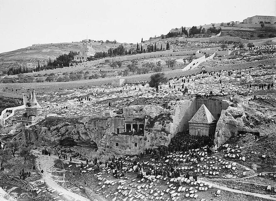 Hews prating at tomb of Zechariah.